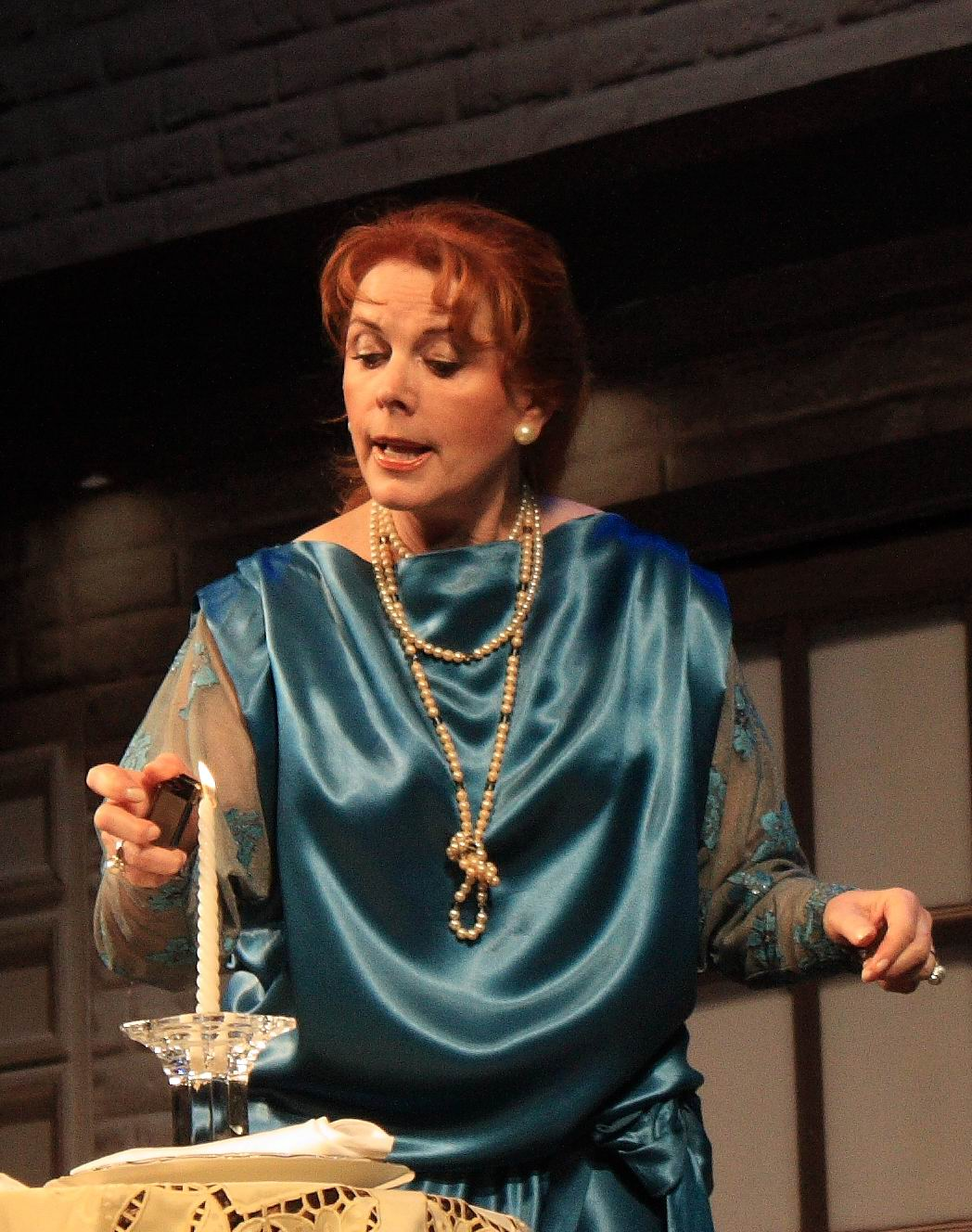 Novikova, Klara Borisovna